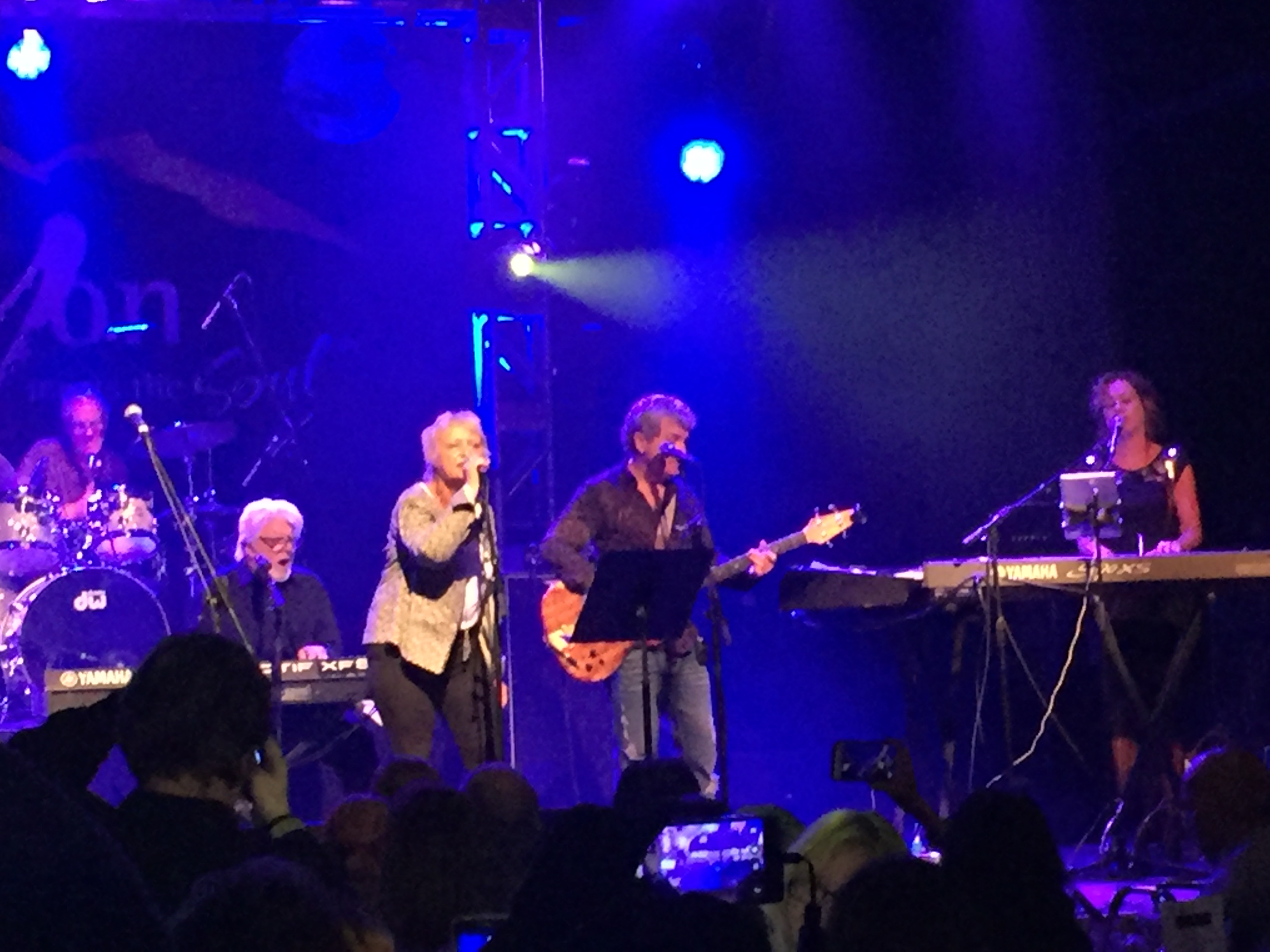 Members of Ambrosia perform onstage with guests Michael McDonald and Amy Holland at the Canyon Club in Agoura Hills, CA in a benefit performance on 3-20-16